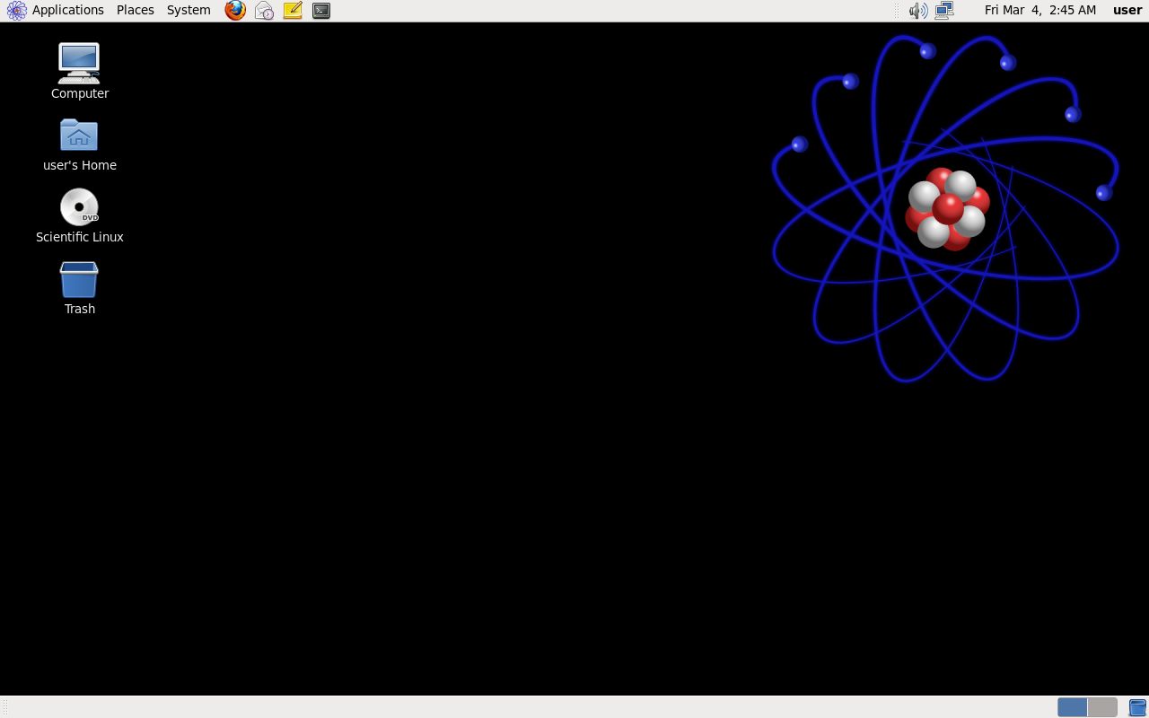 Scientific Linux 6.0 Desktop